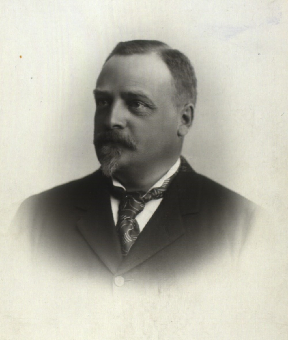 Knud Sehested (1850-1909), Danish jurist, estate owner, and Minister of Agriculture